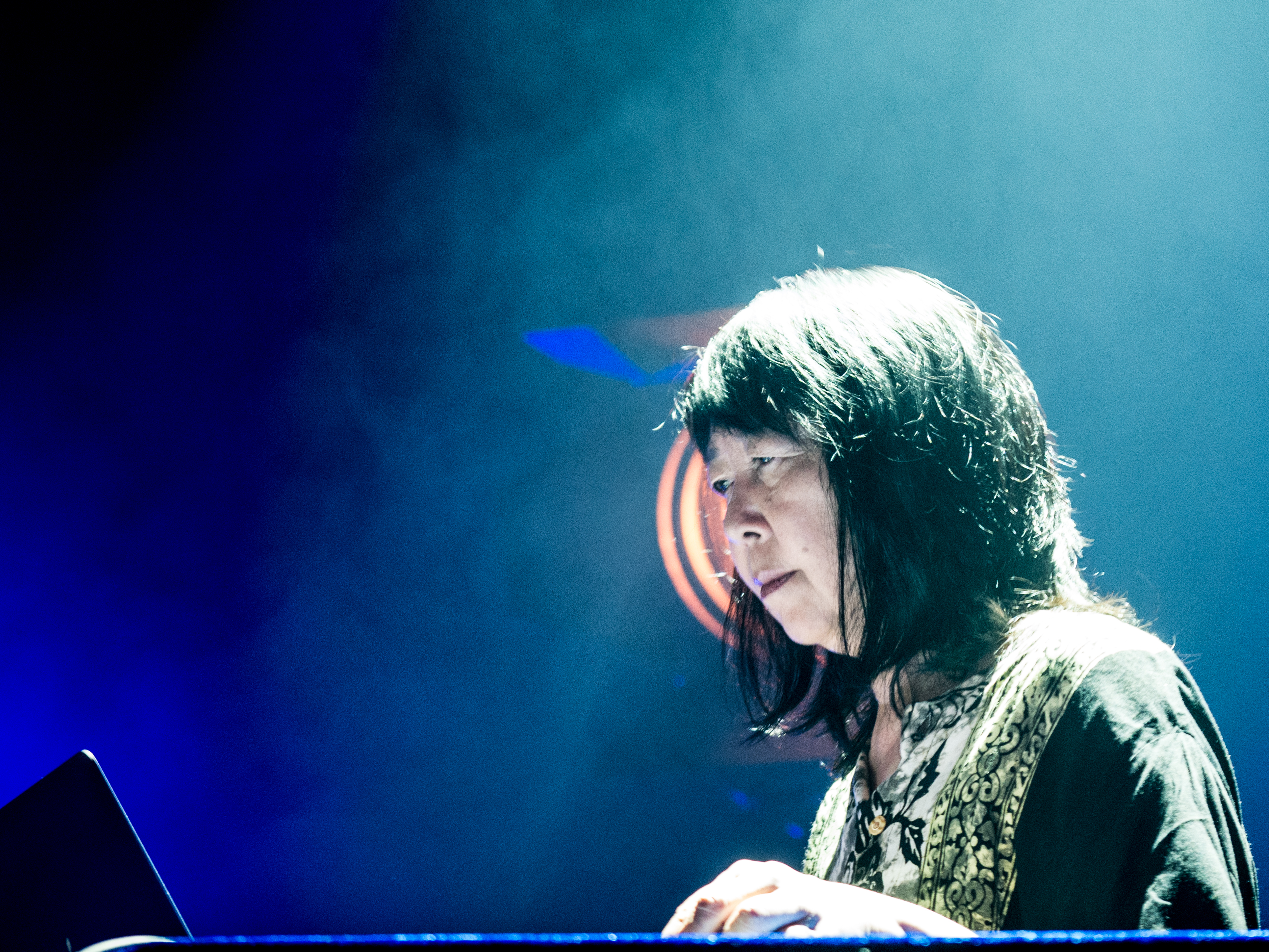 Japanese musician Ikue Mori at the Moers Festival 2017